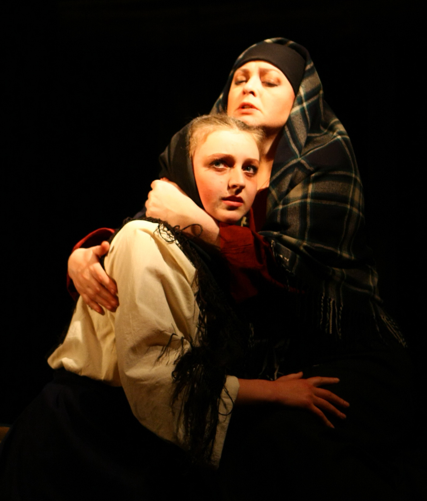 Yaroslava Mosiychuk and Natalia Chornenko